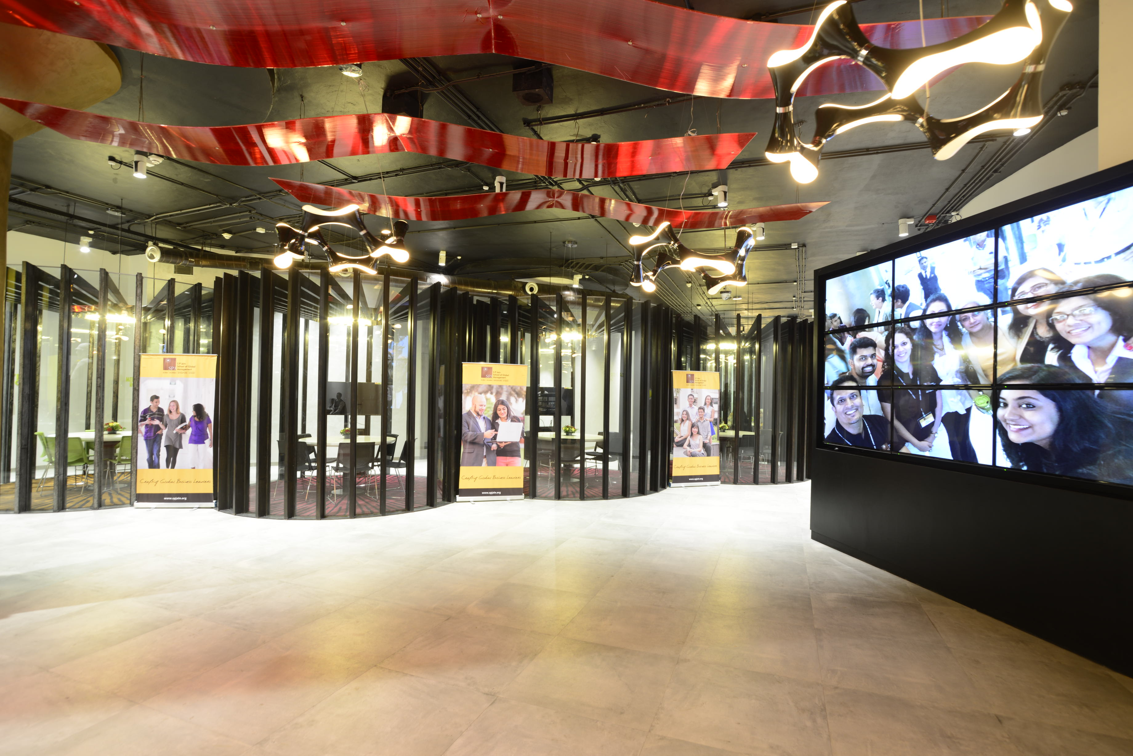 S P Jain Global Mumbai Campus Look